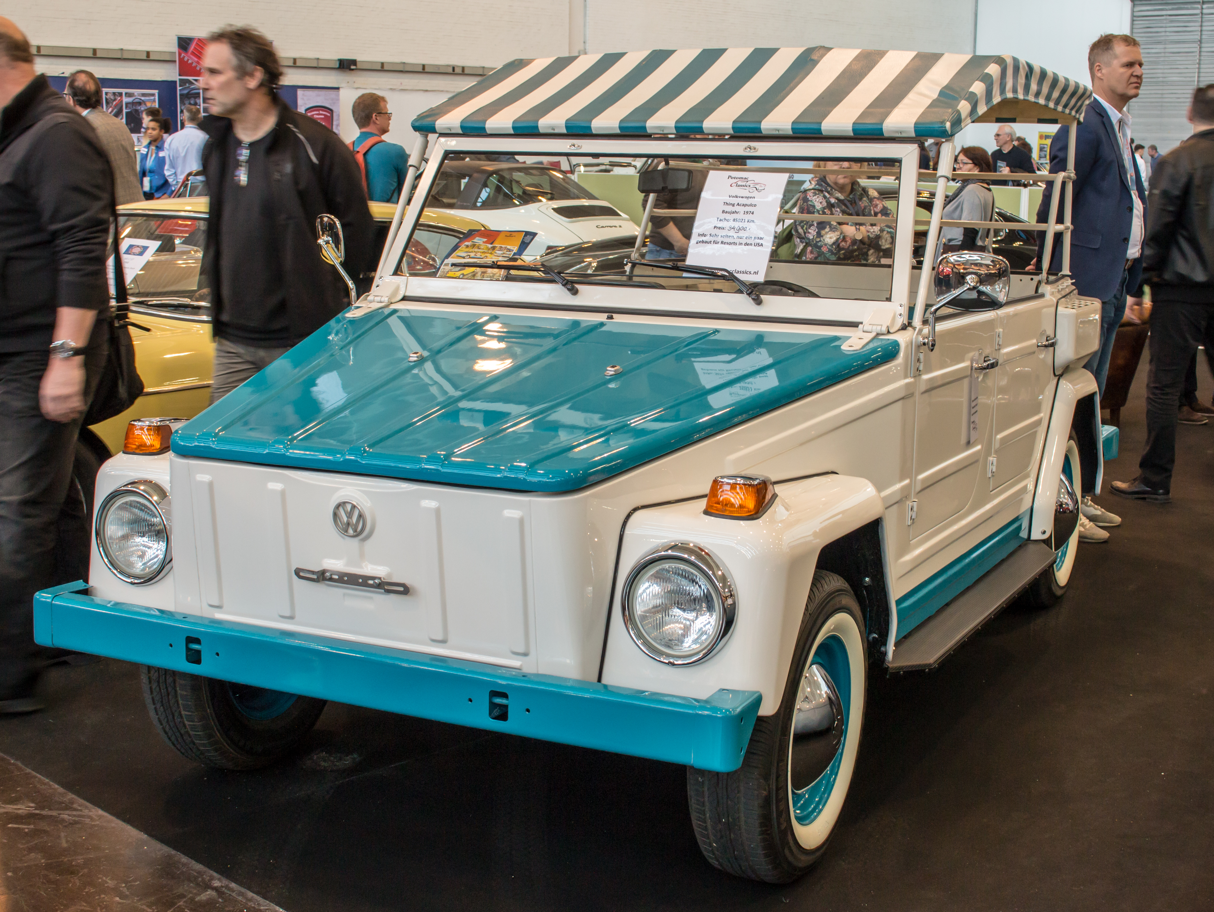 VW Thing Acapulco at Techno Classica 2018, Essen